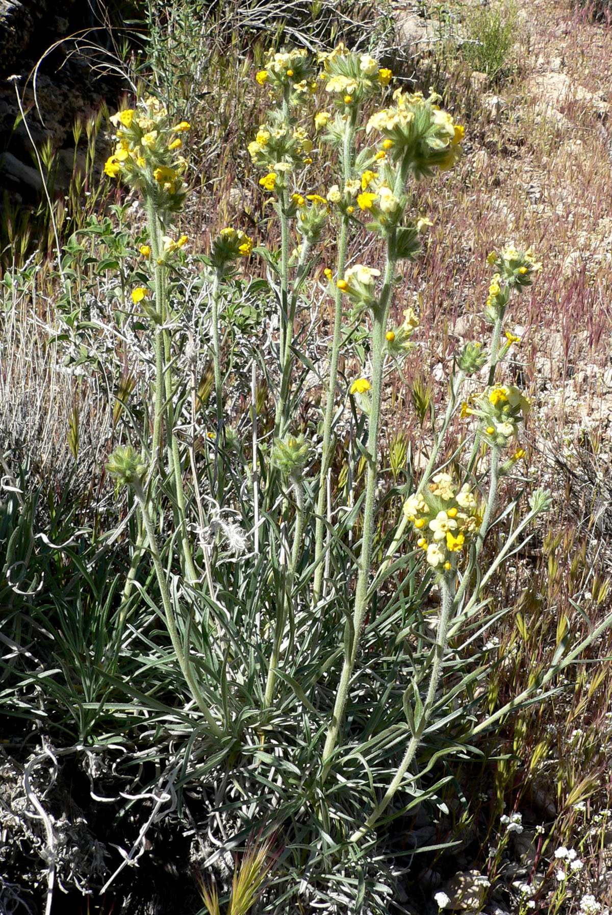 Photo of Cryptantha confertiflora in Red Rock Canyon near Las Vegas, Nevada